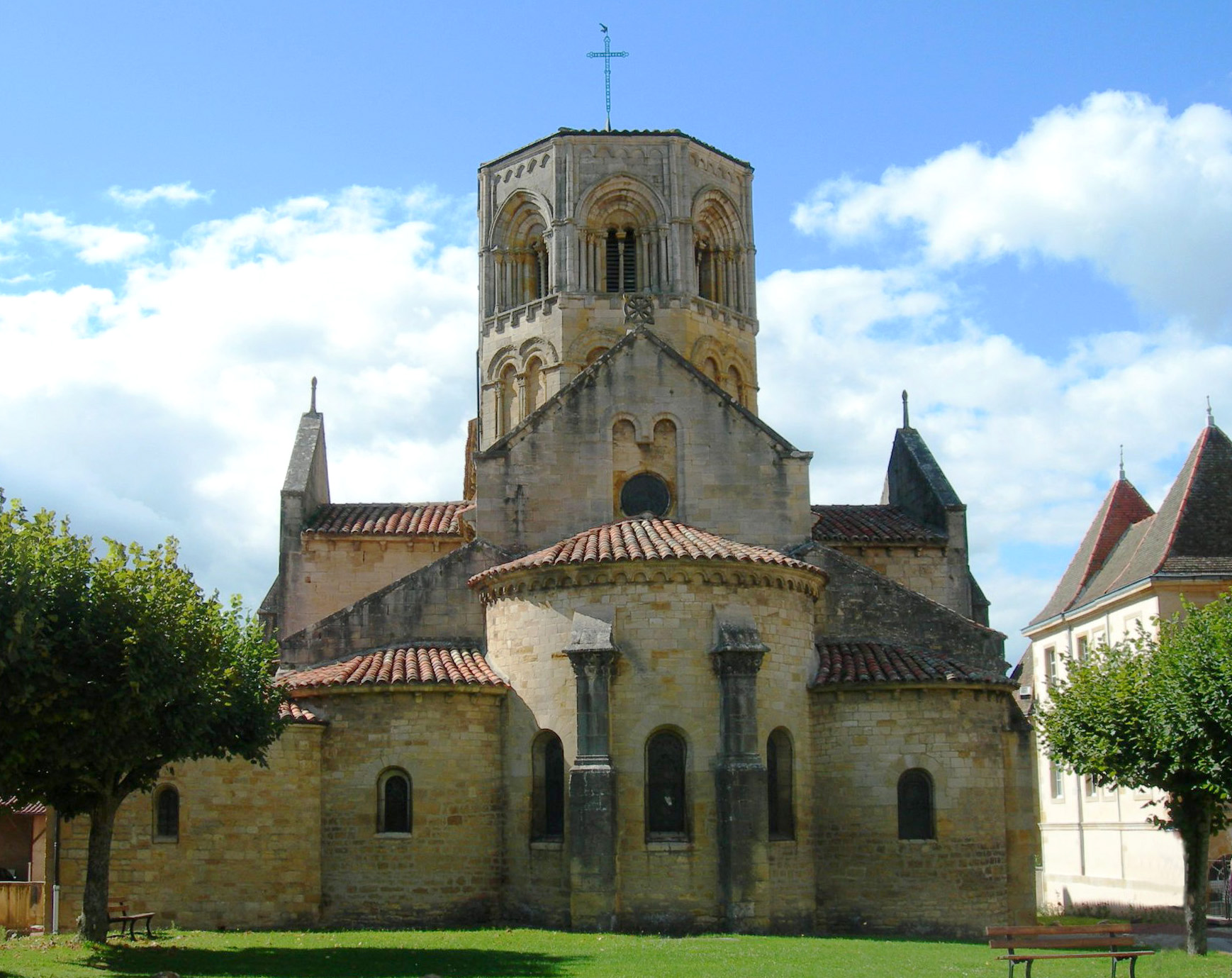 Semur-en-Brionnais (F), church from E. France